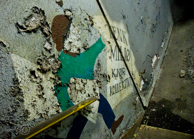 Remains of Mural, Volvat Abandoned T-Bane Station, August 2011 Text says "Think Enviromental Use Collective"